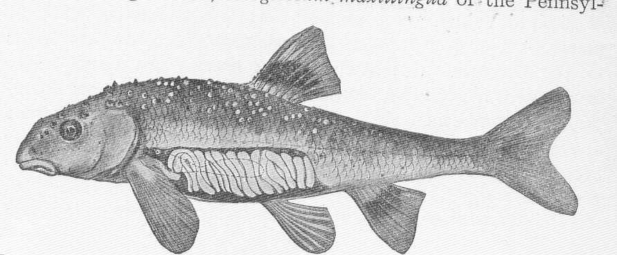 Stone-roller, Campostoma anomalum (Rafinesque). Family Cyprinidae. Showing nuptial tubercles and intestines coiled about the air-bladder Subject: Campostoma, Central stoneroller Tag: Fish